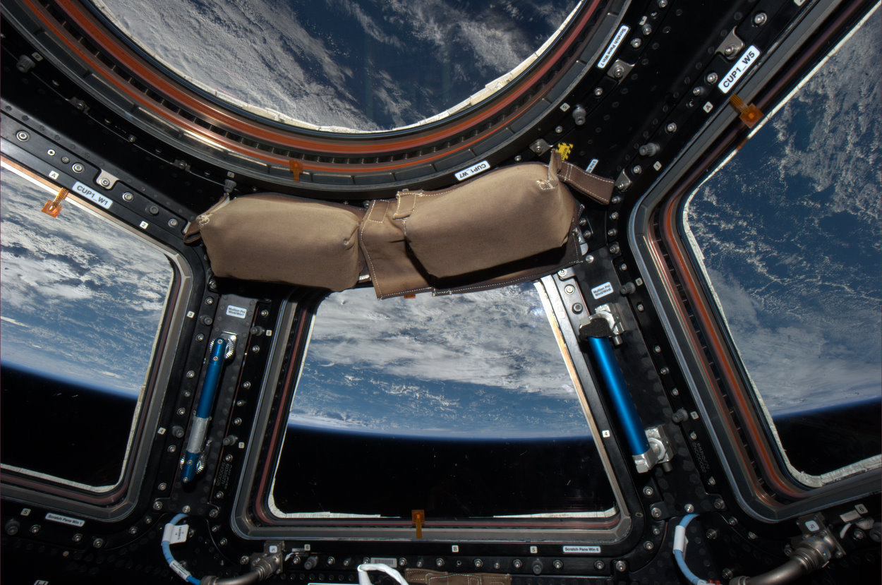 Our windows to the world, the cupola.